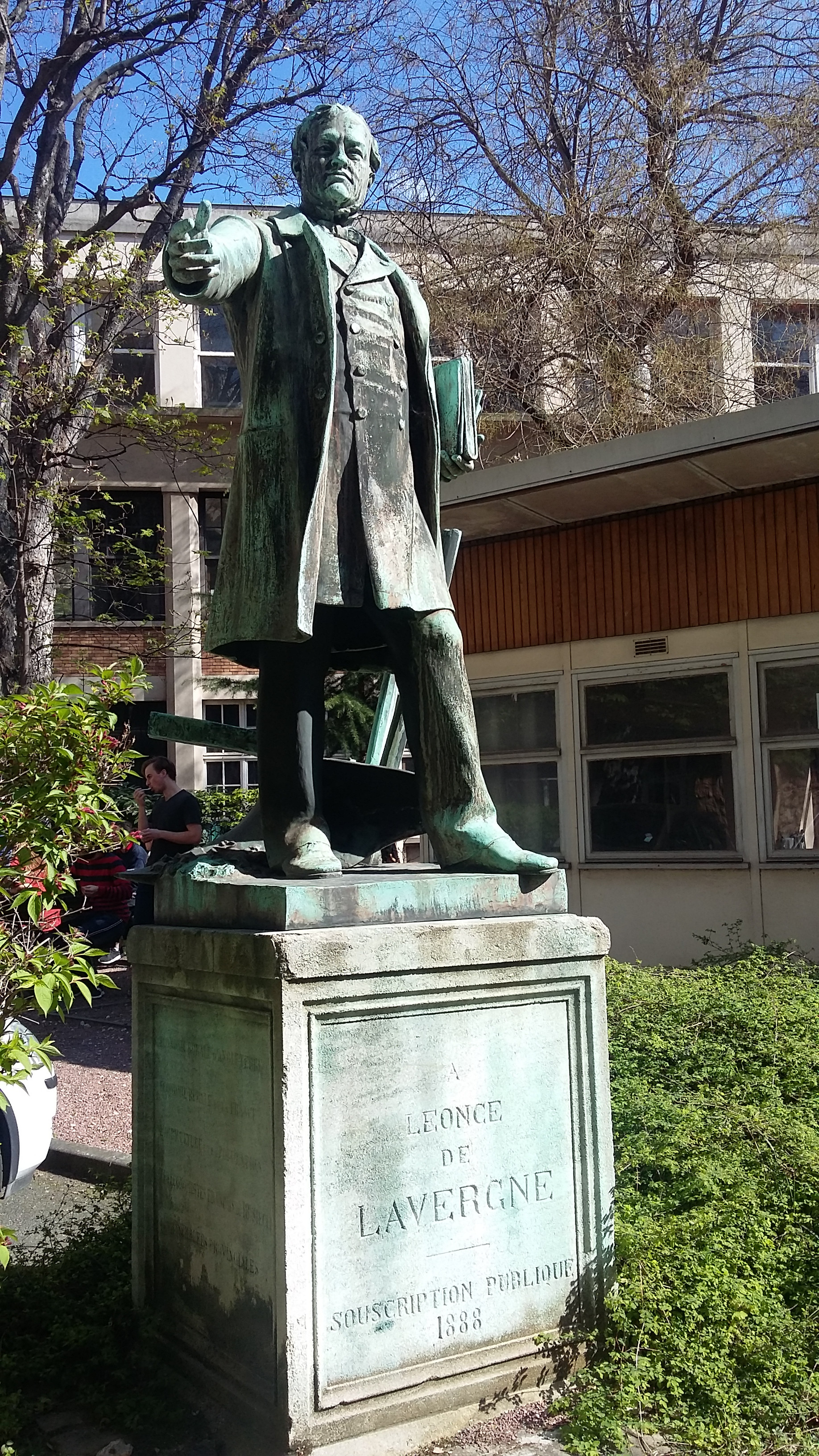 Statue of Léonce de Lavergne (1809-1880), French politician and professor of rural economics. Picture taken at AgroParisTech.